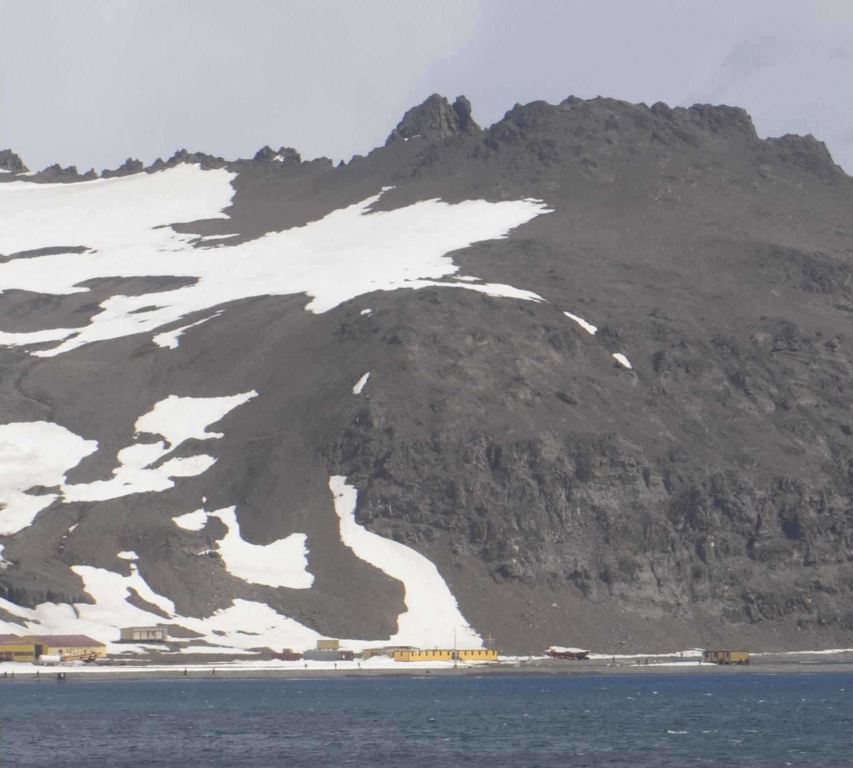 View over the eastern part of the Panorama Ridge from Admiralty Bay on King George Island, Antarctic. The Krzesanica Cliff is on its right and the Polish Antarctic Station "Arctowski" is at its foot.